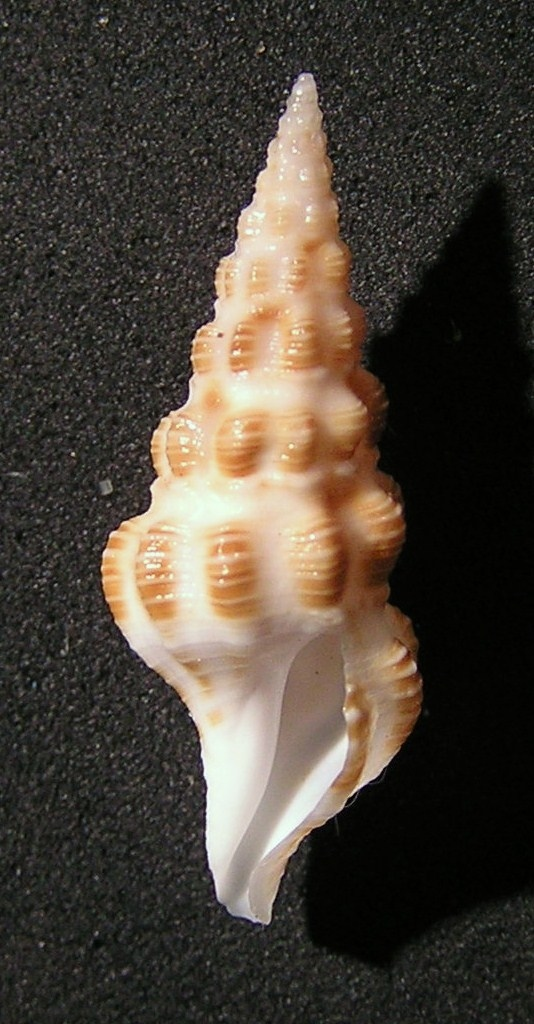 Fenimorea janetae Bartsch, 1934; family Drilliidae; Mexico